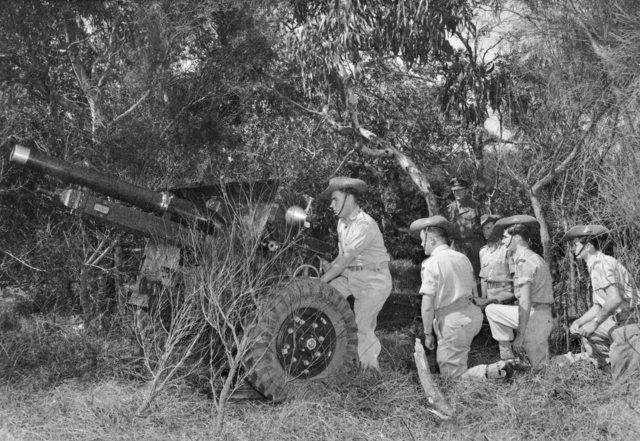 Australian War Memorial image DUN/55/0855/EC A gun team from the Australian Army's 105th Field Battery